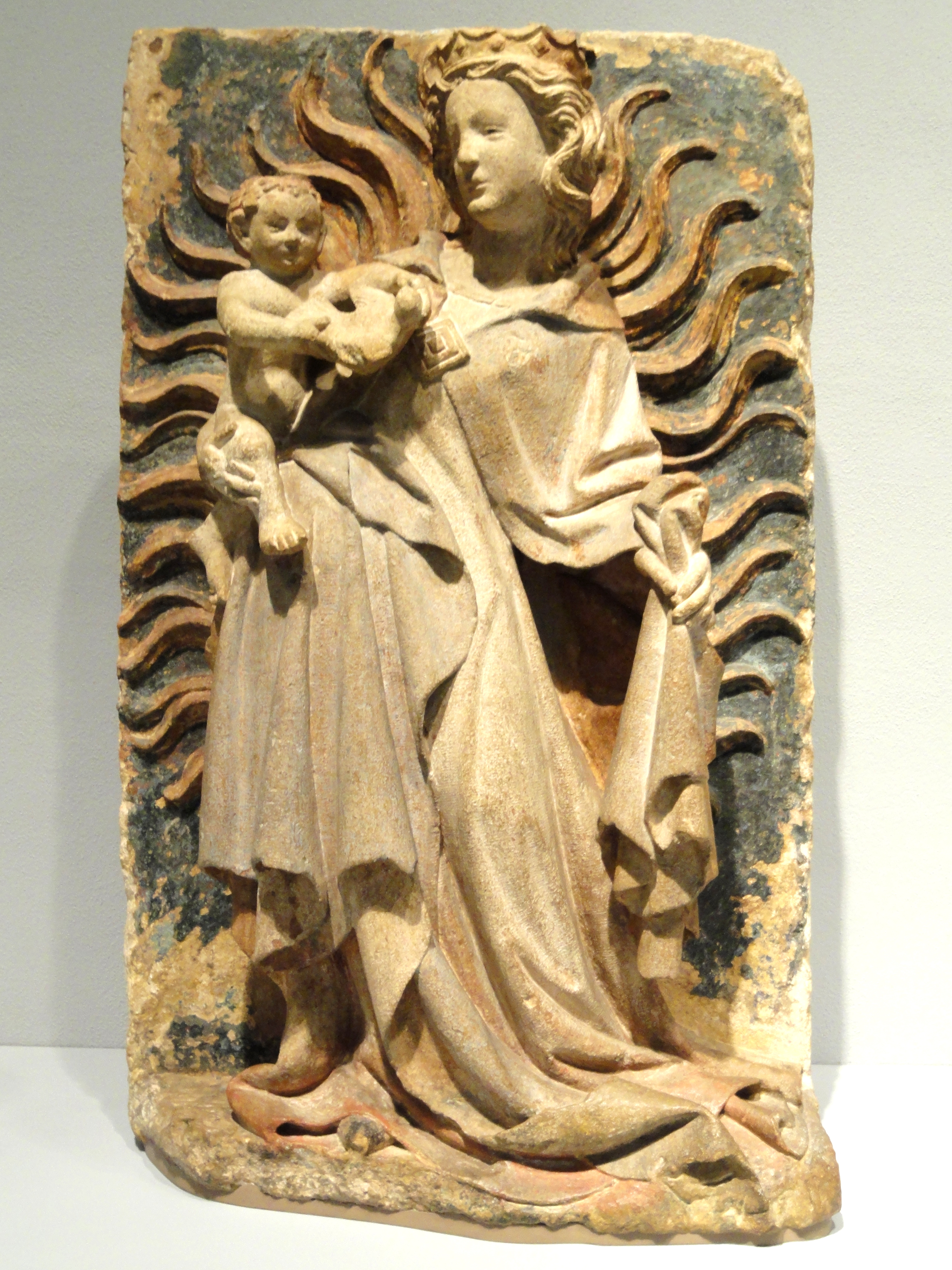 Exhibit in the Nelson-Atkins Museum of Art, Kansas City, Missouri, USA. ; I took this photograph and release it into the public domain.